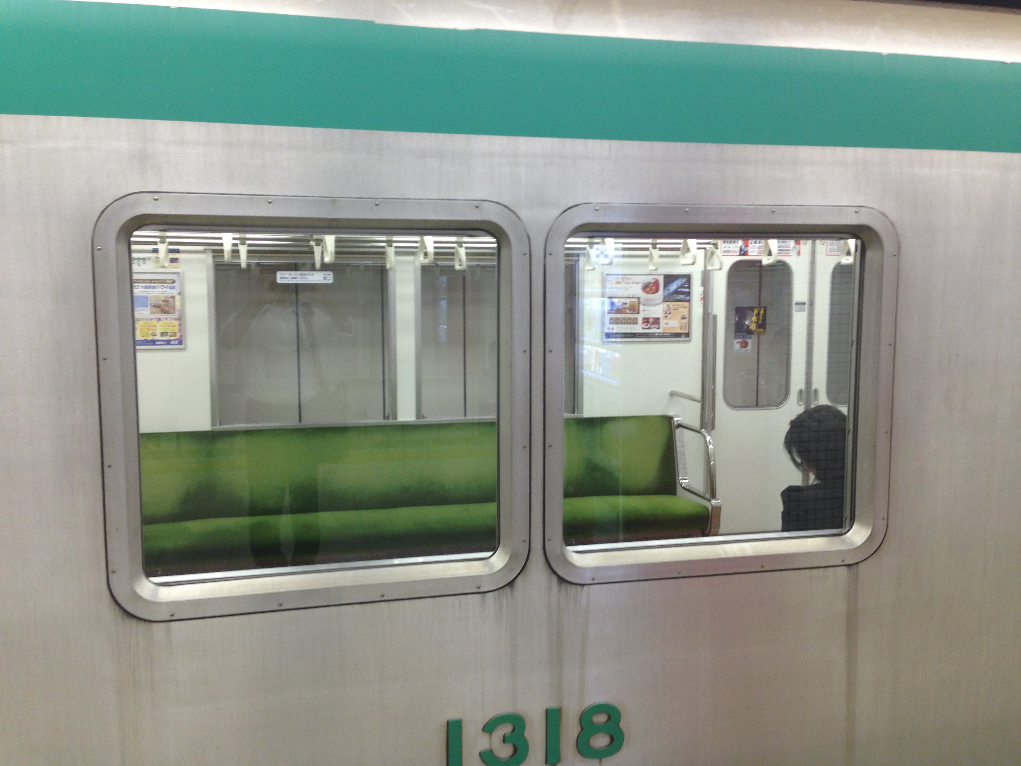 Windows on a Kyoto Subway 10 series batch 6 train (1318)